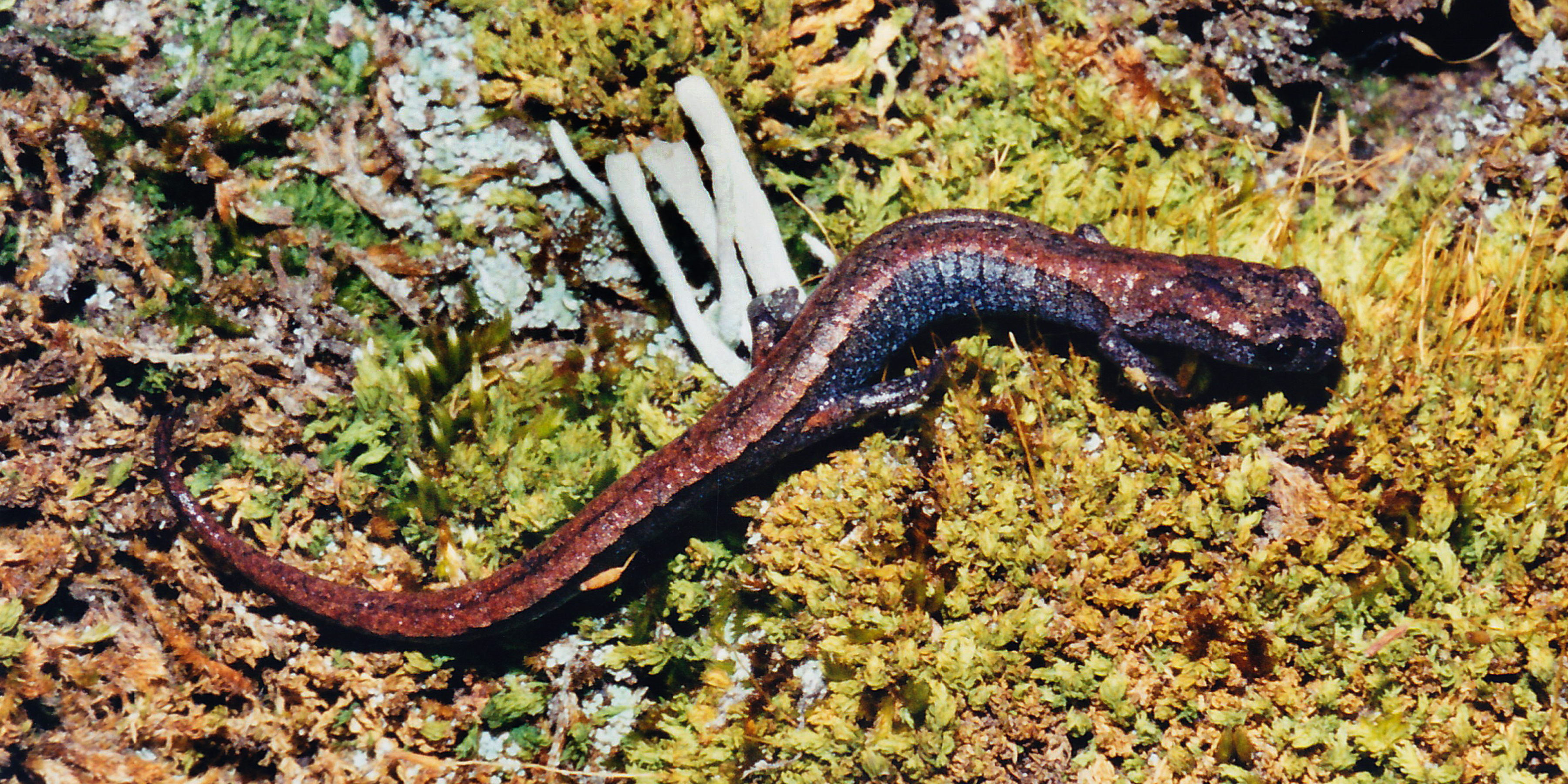 Miquihuana Splayfoot Salamander (Chiropterotriton miquihuanus), from the type locality, Municipality of Miquihuana, Tamaulipas, Mexico Municipality of Miquihuana, Tamaulipas, Mexico (23.6641°N, 99.7136°W, 3012 m. elev.). Photographed on 5 July 2004 by William L. Farr. This image was originally photographed with film and later scanned from a print.